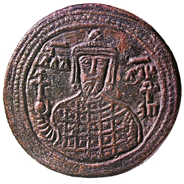 Seal (state seal) of bulgarian tsar Petar I.